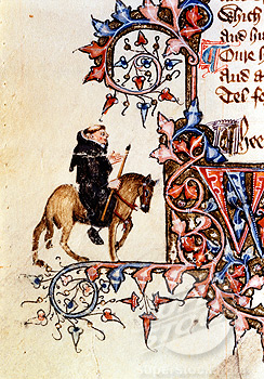 Portrait of the Friar from the Ellesmere Manuscript of The Canterbury Tales by Geoffrey Chaucer